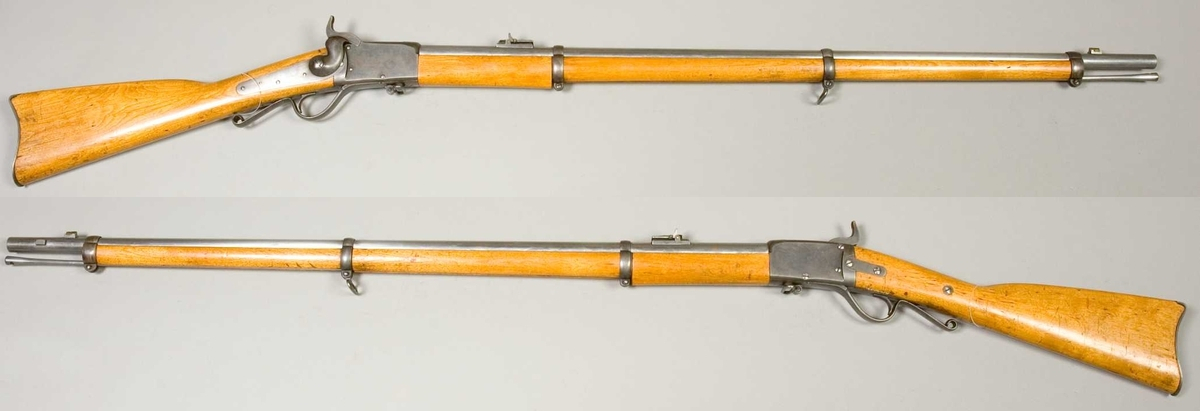 Peabody rifle, Swedish-Norwegian rifle trials 1866. From the collection of Armémuseum (Swedish Army Museum), Stockholm